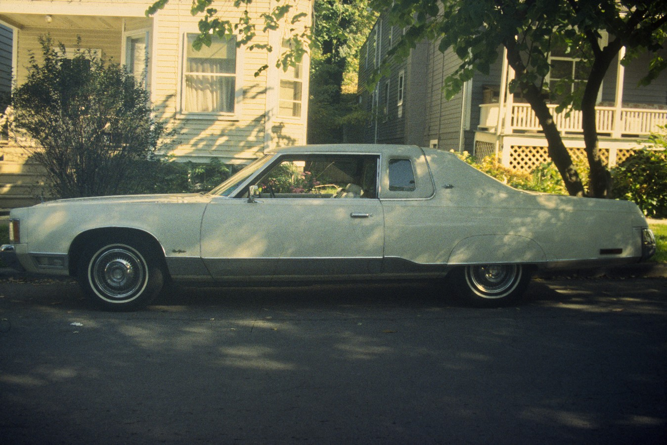 1974 Chrysler New Yorker Brougham, Spinnaker White